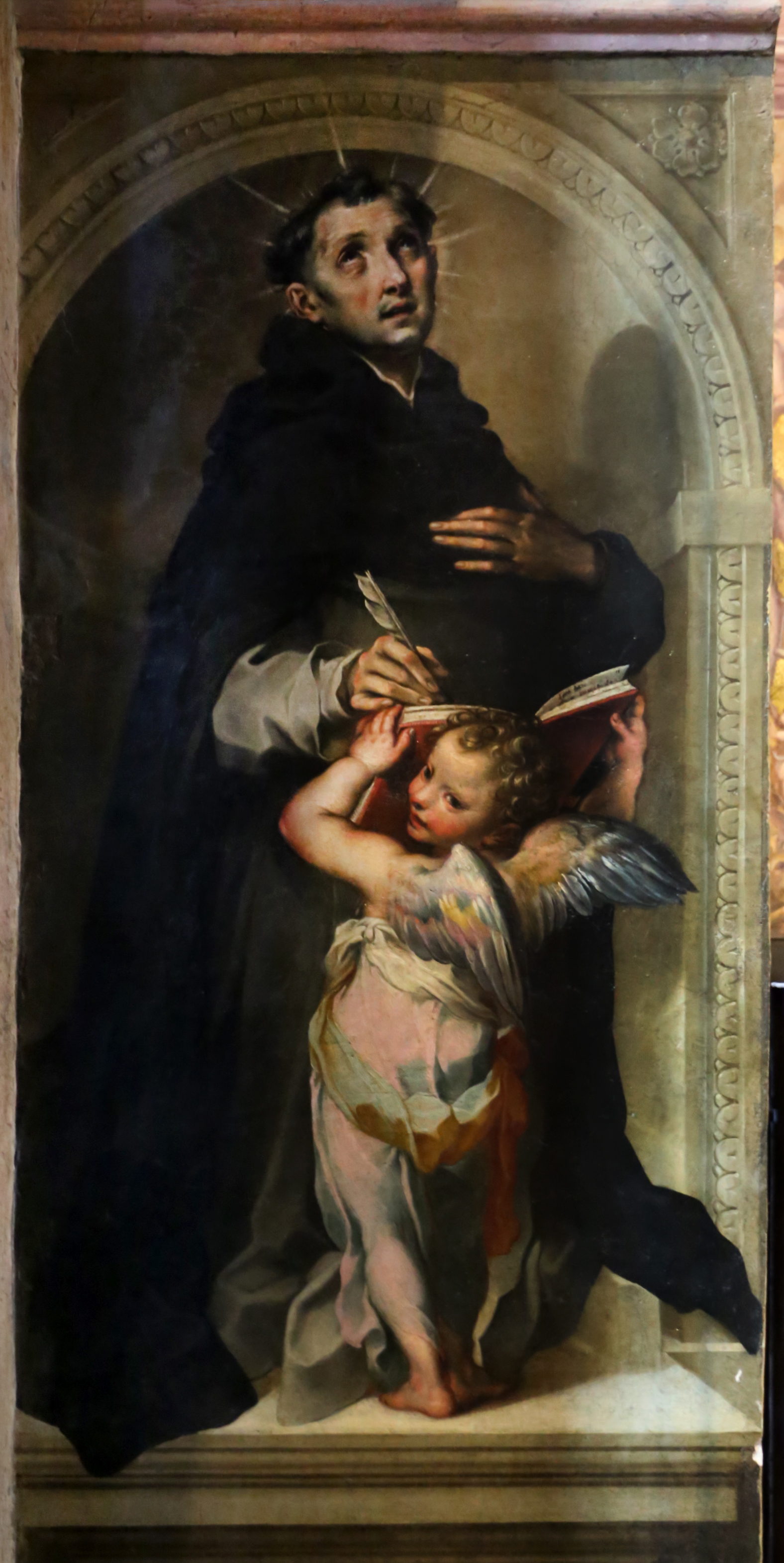 Life of Catherine of Siena and Saints (Francesco Vanni)